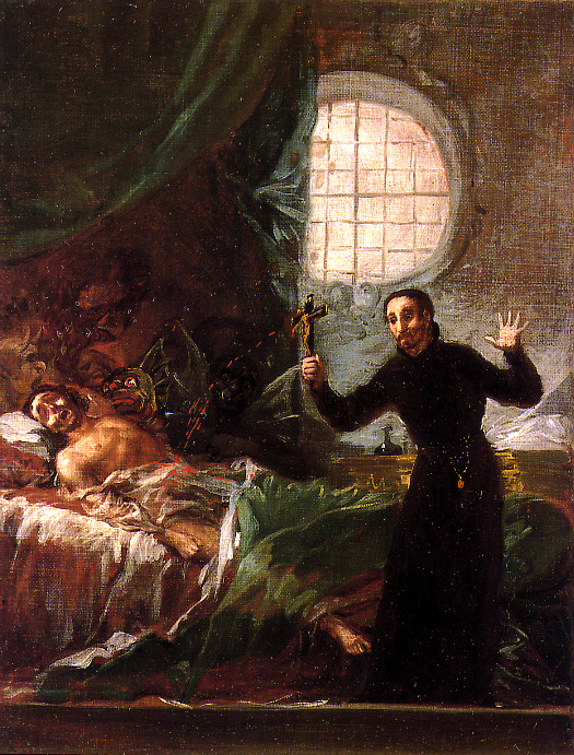 A painting by Goya, of Father General, Saint Francis Borgia, SJ performing an exorcism.